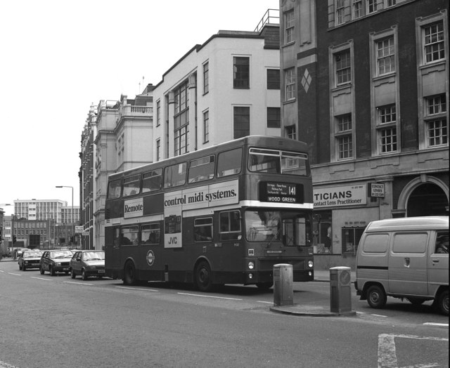 Bus in Old Street, near to Shoreditch, Islington, Great Britain. London Transport Metrobus on Route 141.